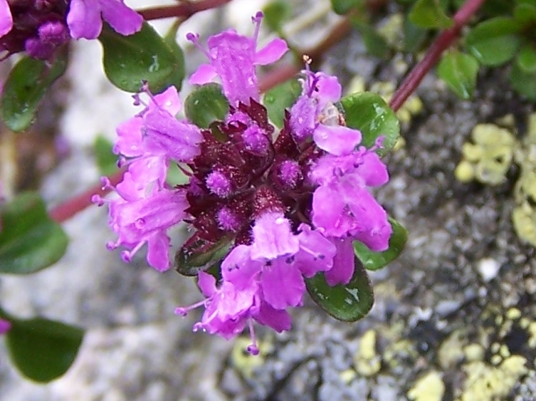 Thymus carpaticus (